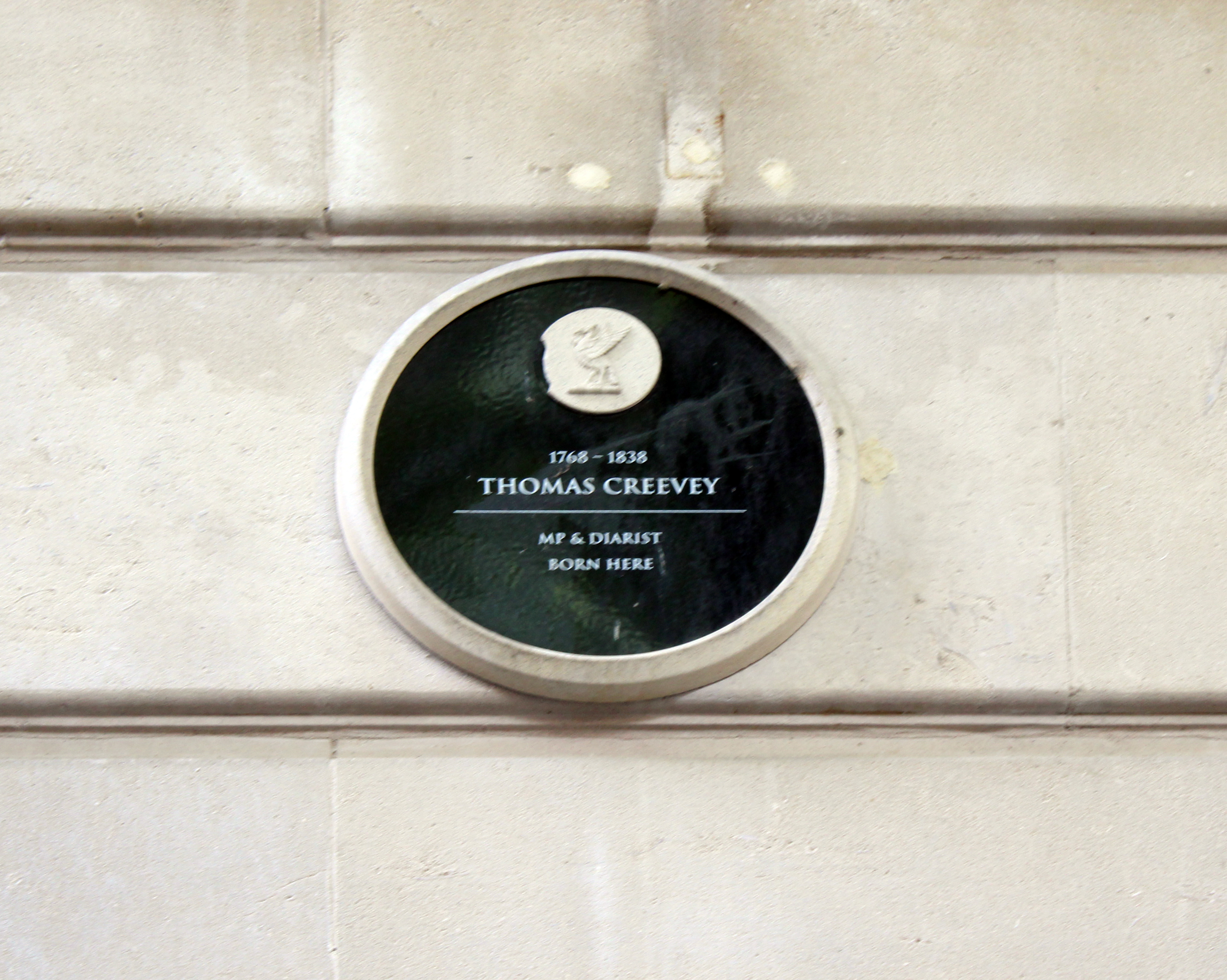 Plaque on the School Lane side of the Liverpool Athaeneum to Thomas Creevy (1768 – 1838), MP for Thetford.